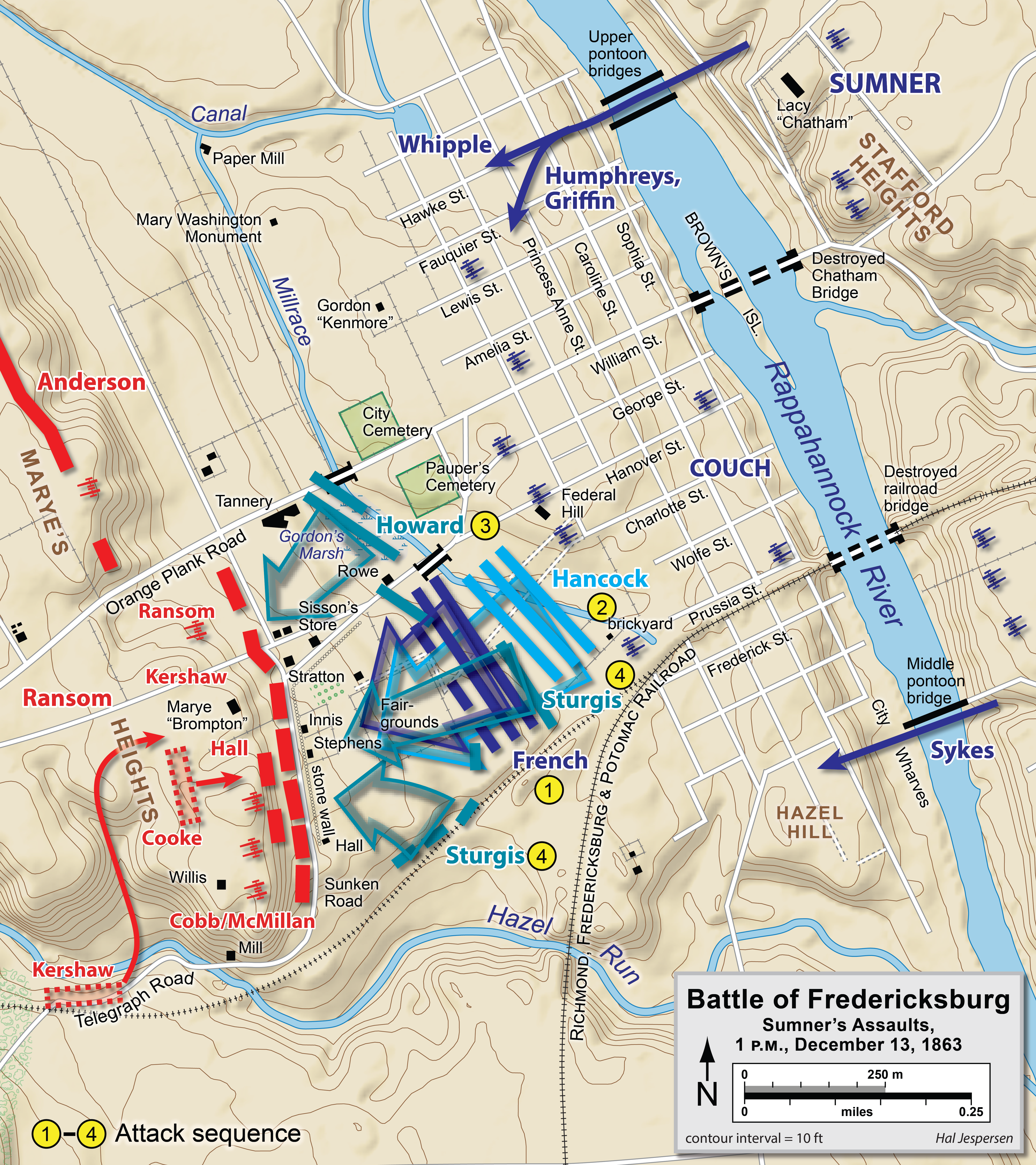 Map of the Battle of Fredericksburg of the American Civil War, Sumner's Assault. Drawn in Adobe Illustrator CS5 by Hal Jespersen. Graphic source file is available at